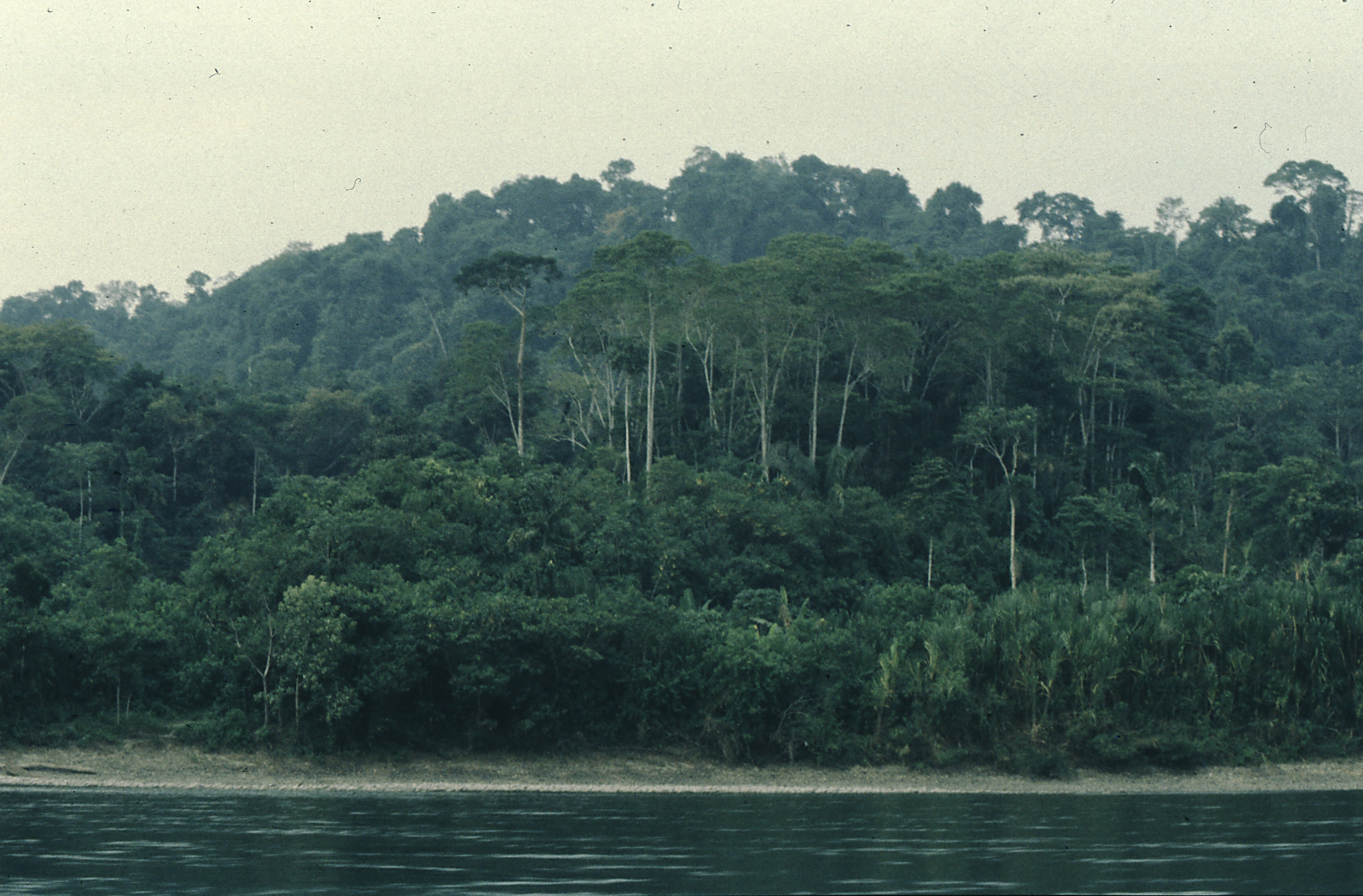 This photo has been scanned with a Reflecta DigitDia 6000 image scanner.